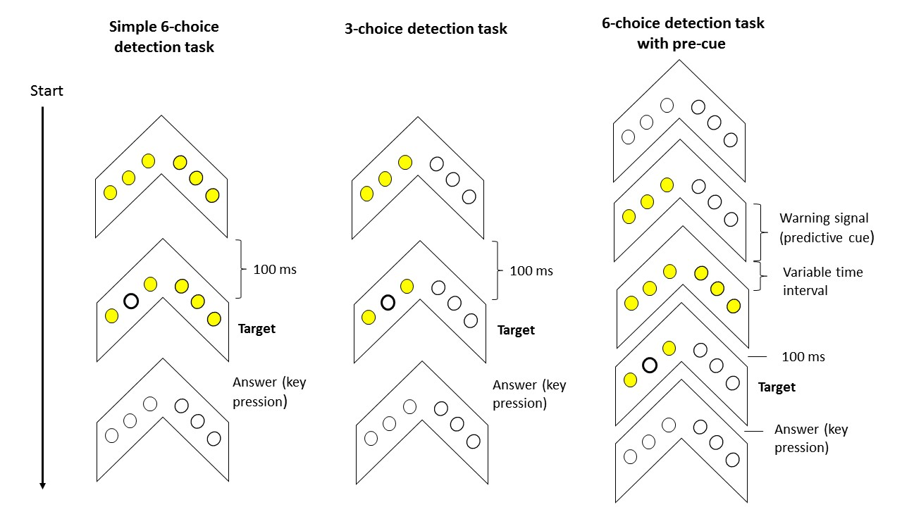 Schematic explanation of J. Alfred Leonard's experiment (1958). The subject must detect the turning off of a lightbulb and press a key corresponding to the correct lamp. The lighting up of one arm of the structure works as a warning signal, informing the subject about the location of the incoming target.